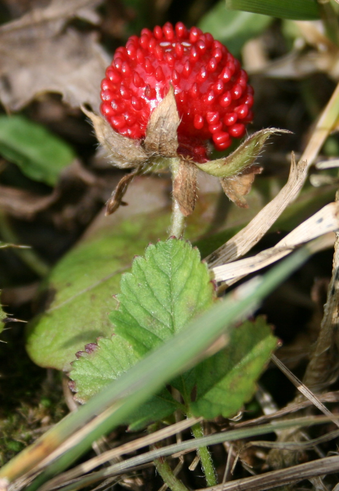 Mock strawberry, Potentilla indica in Mount Ibuki, Japan.